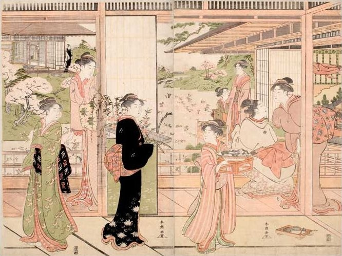 The Doll Festival at a Military Household by Katsukawa Shunchō, c. 1781-1801, woodblock print, Honolulu Museum of Art